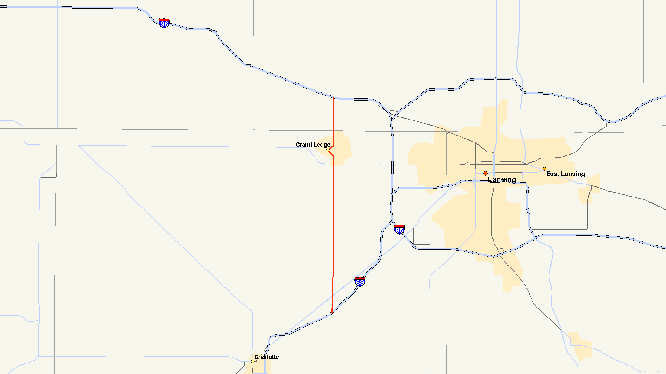 Map of M-100